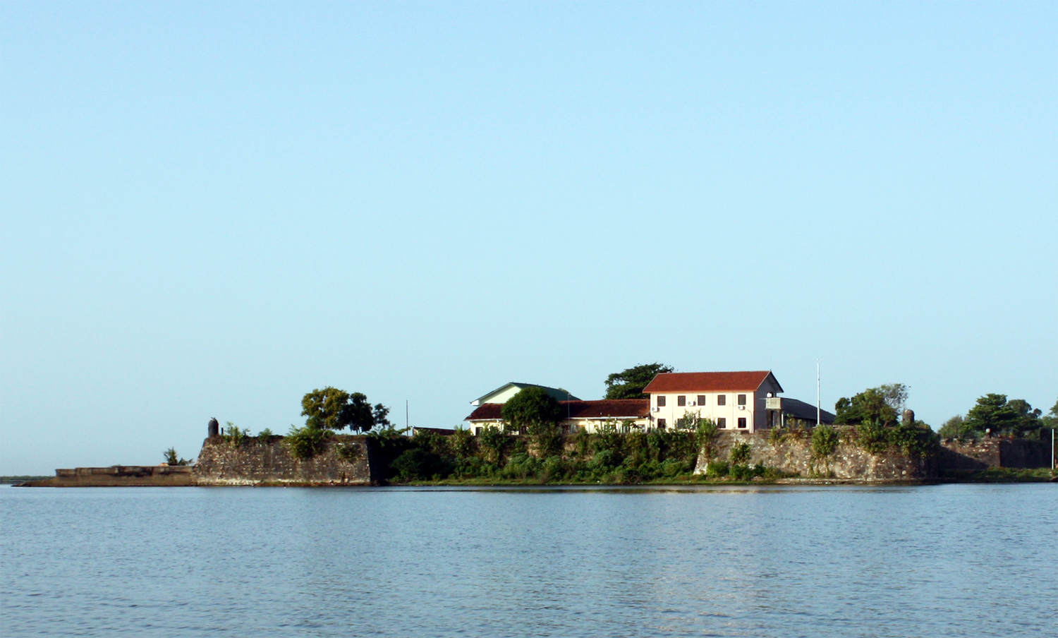 The current appearance of the Portuguese fort of Batticaloa.